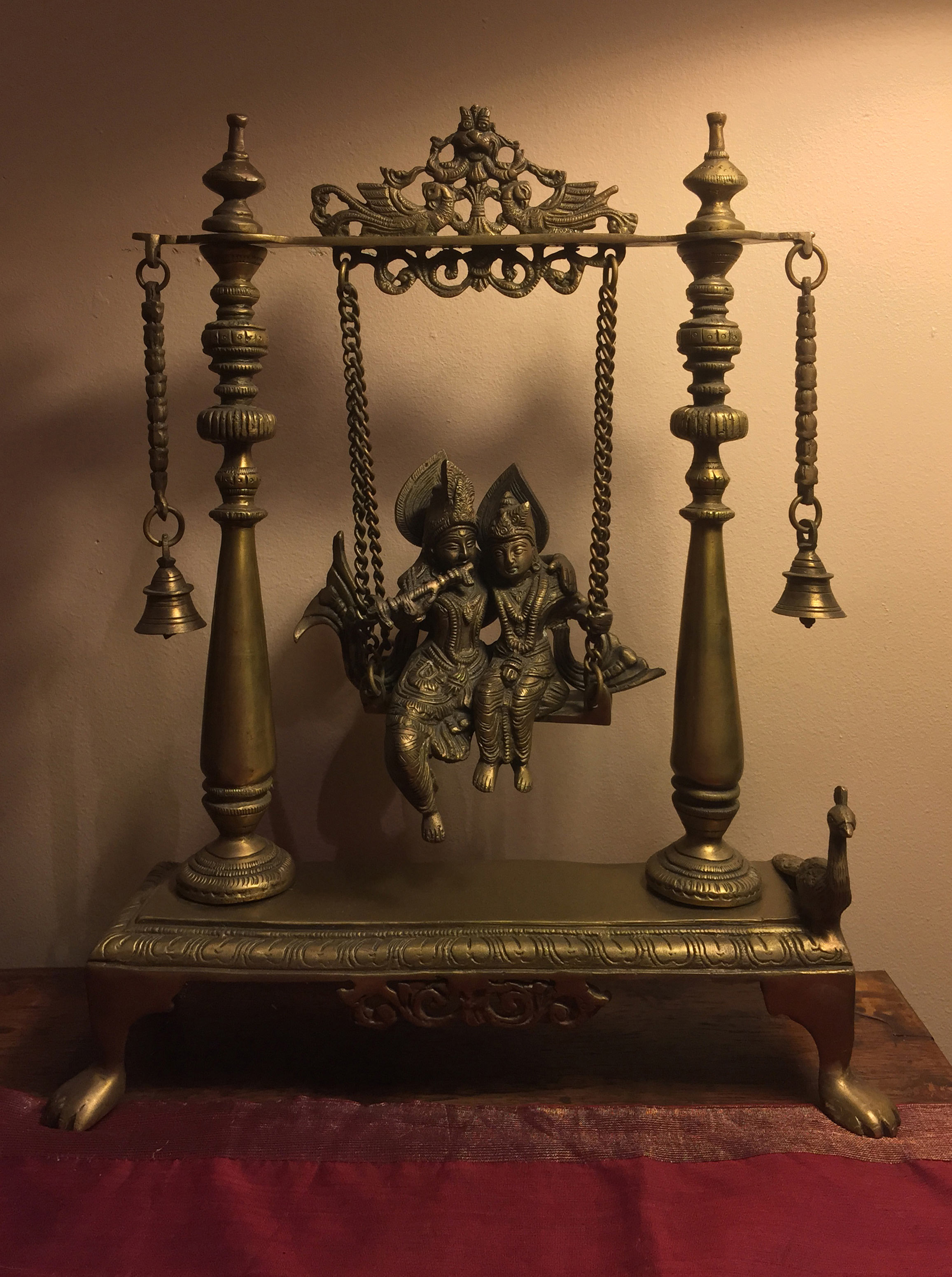 Radha and Krishna dally on a swing, while Krishna plays his flute. Bronze, probably 20th century.